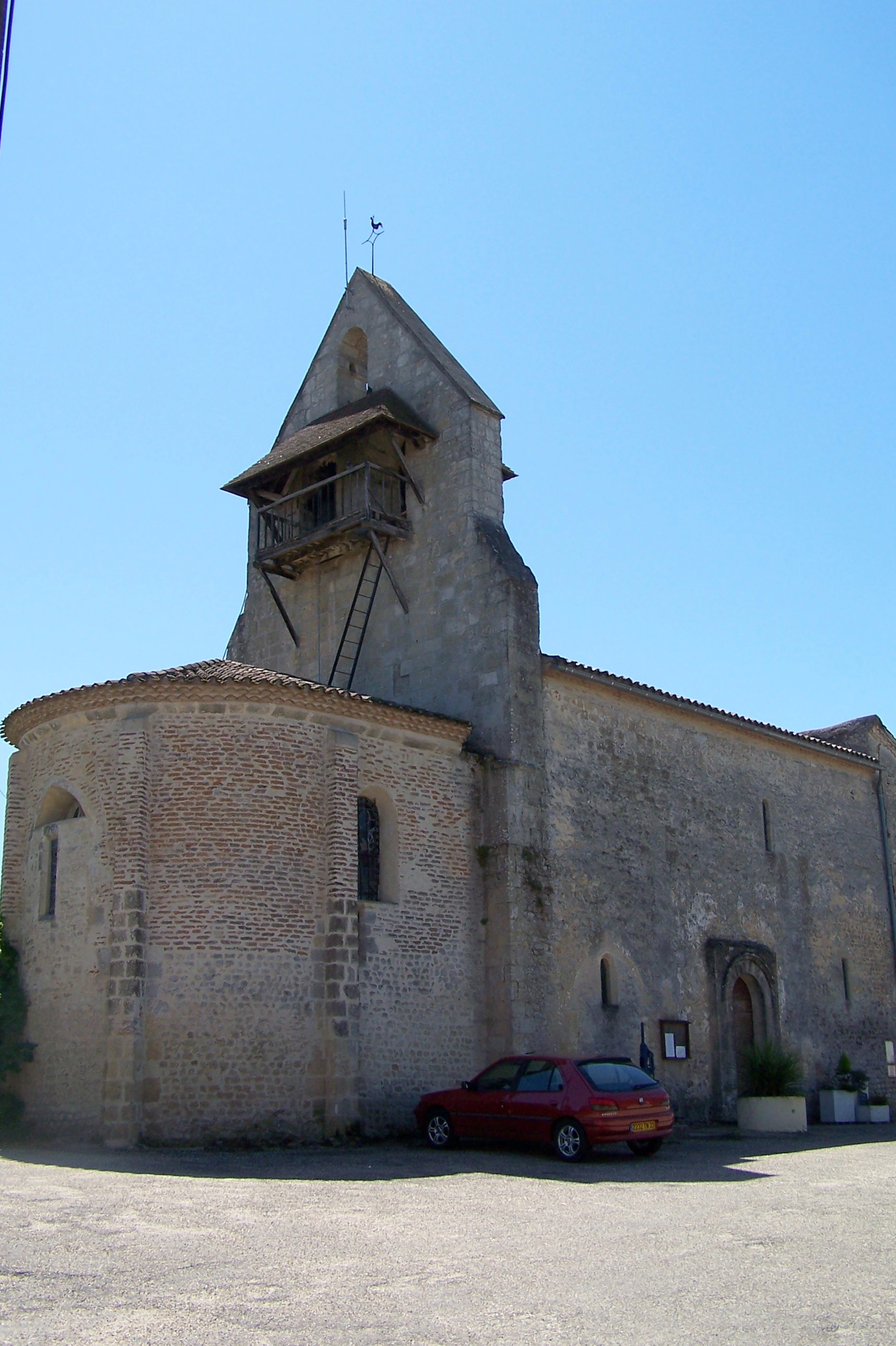 Church of Bagas (Gironde, France)